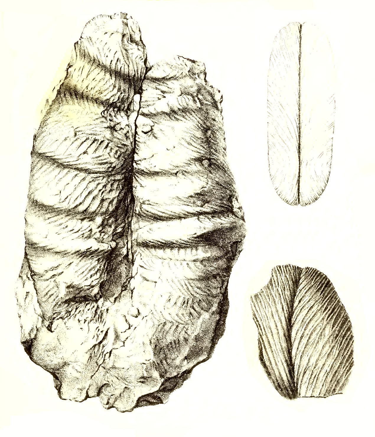 Historical depiction of specimens of the trace fossil genus Cruziana D’ORBIGNY, originally referred to as “Bilobites rugosus” (left) and “Bilobites furcifer” (right top and bottom), modified.